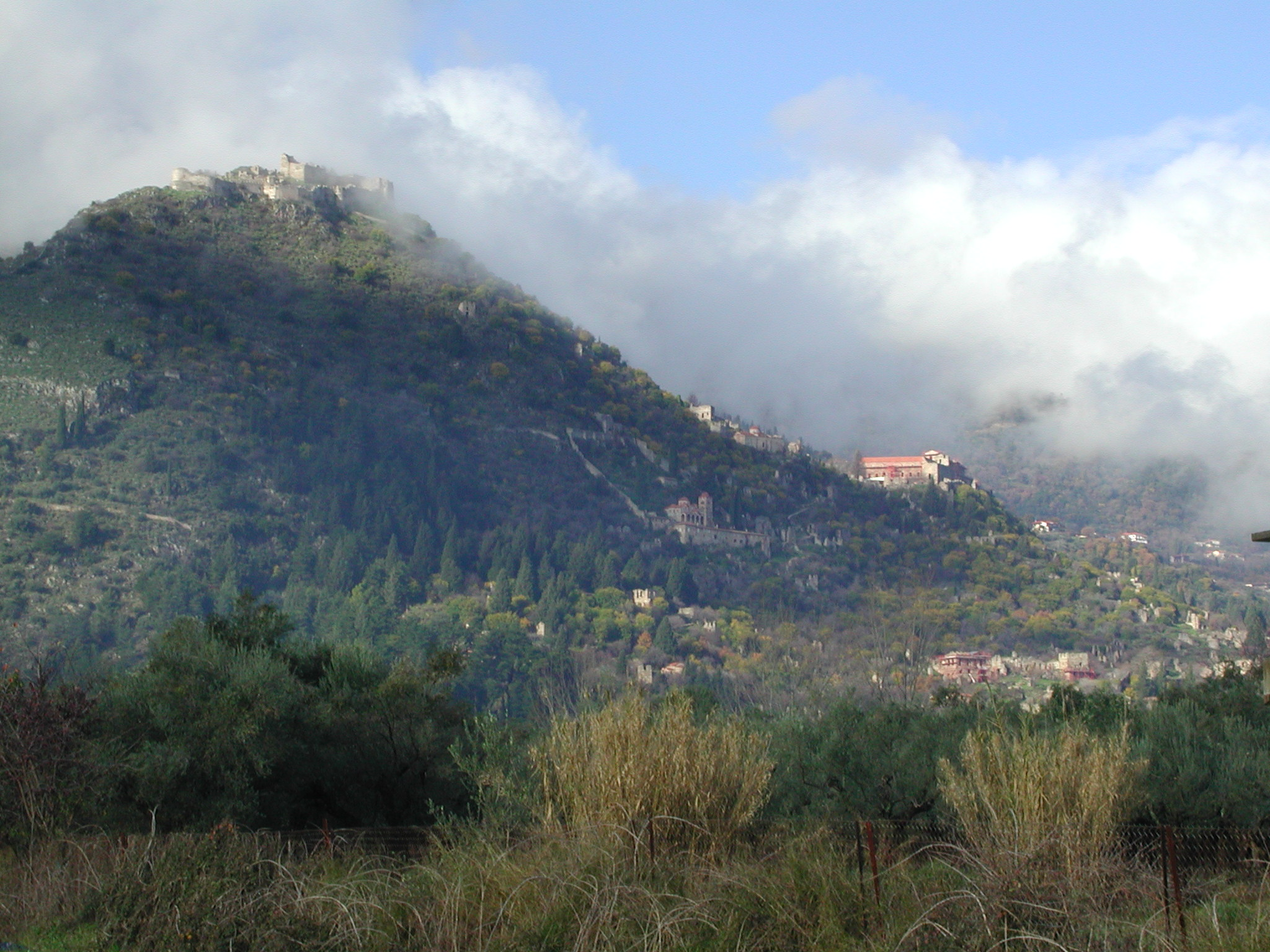 Battlements of Mystras, Greece seen from the Vale of Laconia.